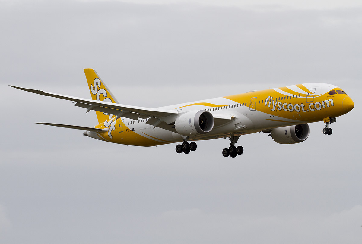 Scoot's first Boeing 787 on finals at Singapore Changi Airport. Registered 9V-OJA, this aircraft is photographed on its delivery flight